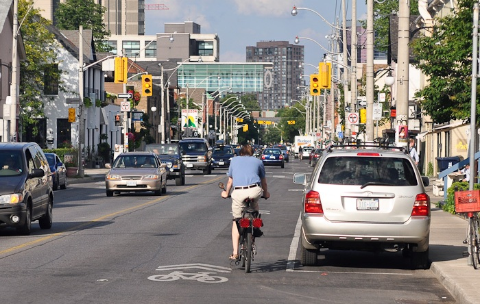 Bicycle sharrows (shared-lane markings) on Harbord Street, Toronto, Ontario, Canada. Sharrows are placed in a travel lane to remind all road users that a bicyclist may use the full lane. They differ from bike lanes as there is no separate lane set aside for cyclists.